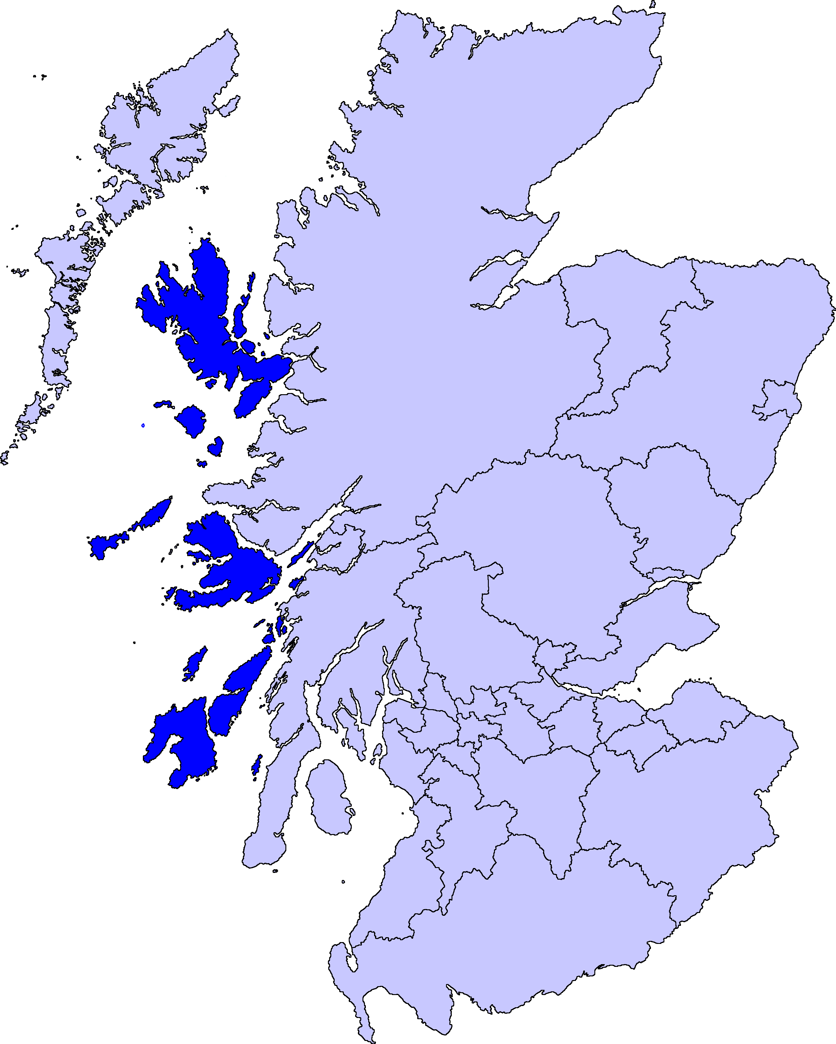 Locator map for Inner Hebrides